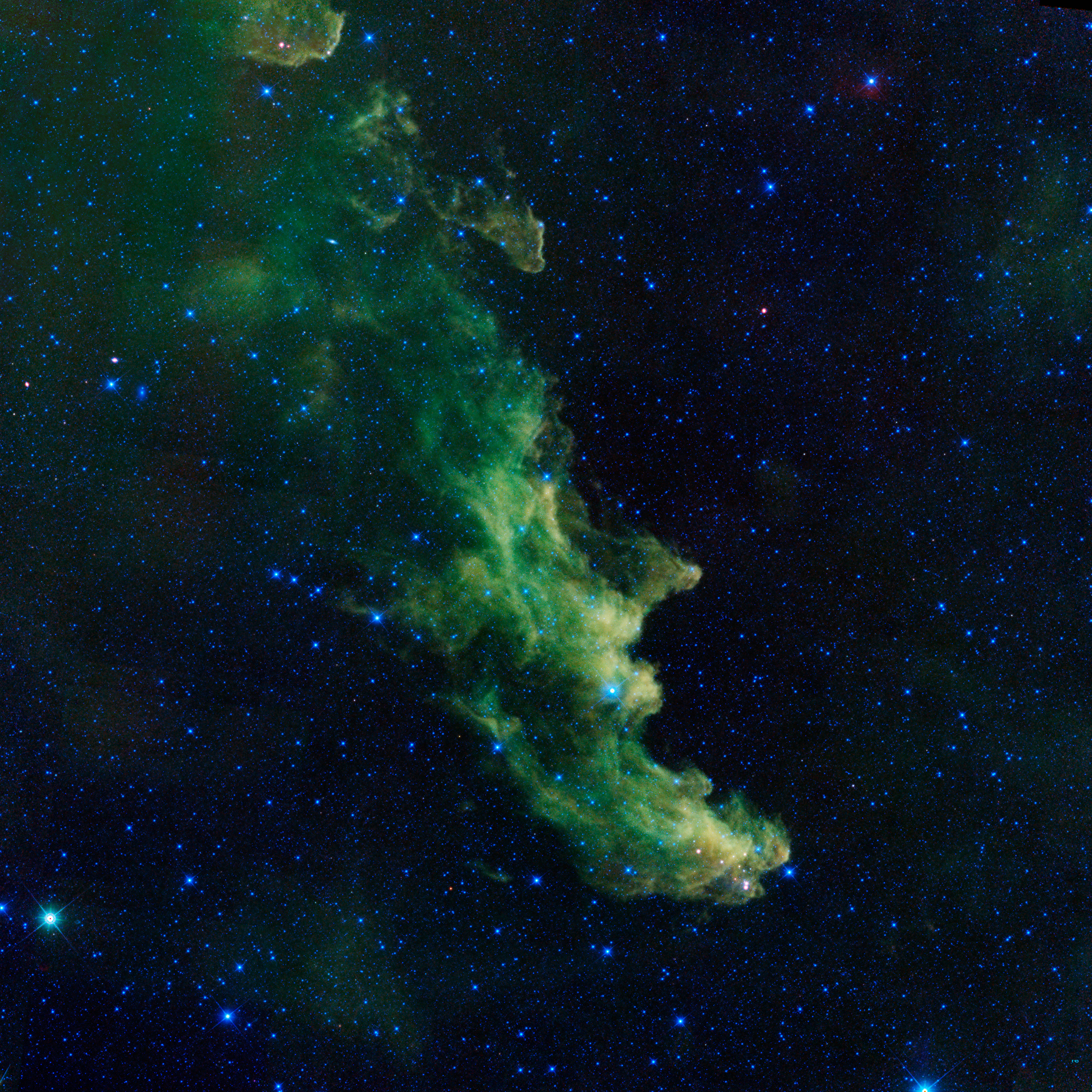 A witch appears to be screaming out into space in this new image from NASA's Wide-Field Infrared Survey Explorer, or WISE. The infrared portrait shows the Witch Head nebula, named after its resemblance to the profile of a wicked witch. Astronomers say the billowy clouds of the nebula, where baby stars are brewing, are being lit up by massive stars. Dust in the cloud is being hit with starlight, causing it to glow with infrared light, which was picked up by WISE's detectors. The Witch Head nebula is estimated to be hundreds of light-years away in the Orion constellation, just off the famous hunter's knee. WISE was recently "awakened" to hunt for asteroids in a program called NEOWISE. The reactivation came after the spacecraft was put into hibernation in 2011, when it completed two full scans of the sky, as planned. Image credit: NASA/JPL-Caltech NASA image use policy. NASA Goddard Space Flight Center enables NASA’s mission through four scientific endeavors: Earth Science, Heliophysics, Solar System Exploration, and Astrophysics. Goddard plays a leading role in NASA’s accomplishments by contributing compelling scientific knowledge to advance the Agency’s mission. Follow us on Twitter Like us on Facebook Find us on Instagram